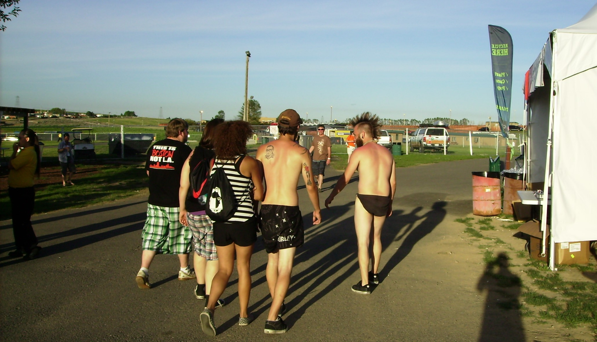 Concert goers at Lilith Fair at Gorge at George in 2010. Atypical for the genre of music.